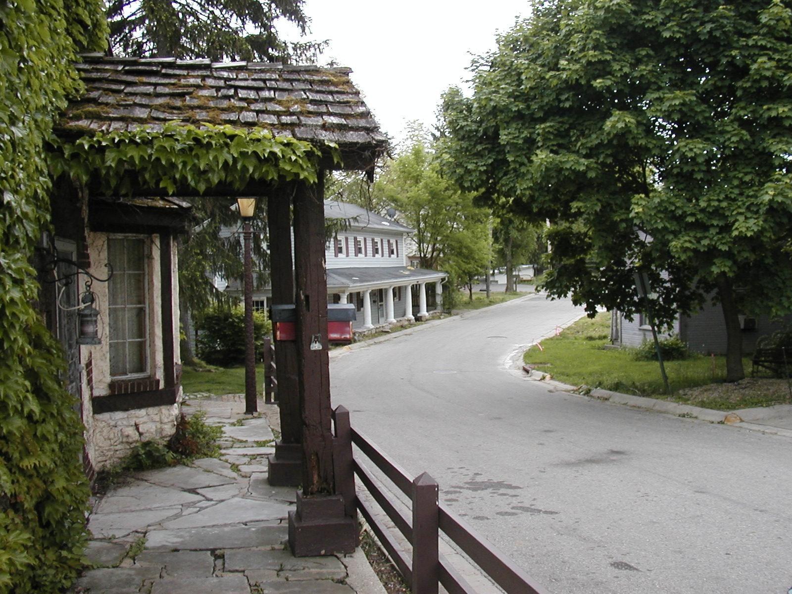 Older buildings on Pike Street in New Carlisle, Ohio, United States.